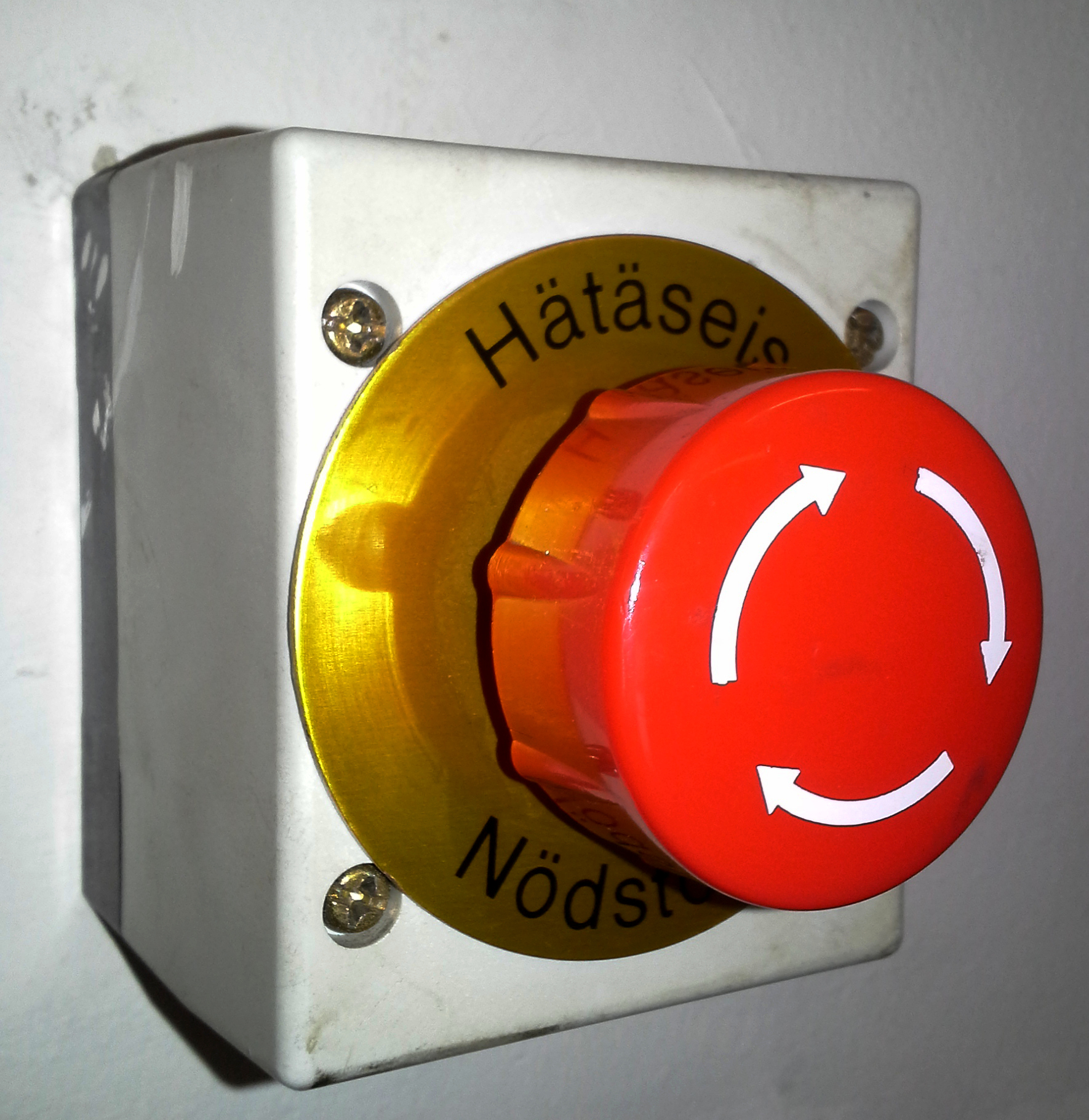 Emergency stop